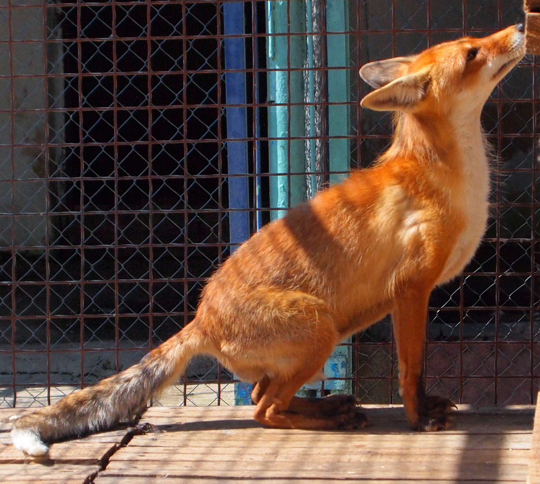 Fox in Simferopol zoo. This photograph was taken with an Olympus E-PL1